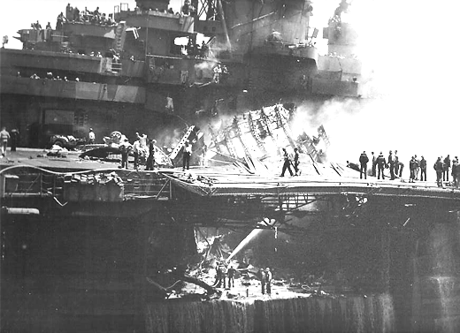 CV-17 USS Bunker Hill after Kamikaze attack on 11 May 1945. The Kamikaze and his bomb smashed through the flight deck, but did not make it through the hangar deck where it exploded. Bunker Hill's armor protecting the machinery spaces below had proven effective. A significant improvement of the USS Bunker Hill (as an ESSEX Class ship) over the other US carriers at the time was that they were equipped with a more heavily armored deck, plus a second armored deck on the hangar level designed to detonate bombs before they reached the vital machinery and electronic spaces below.]